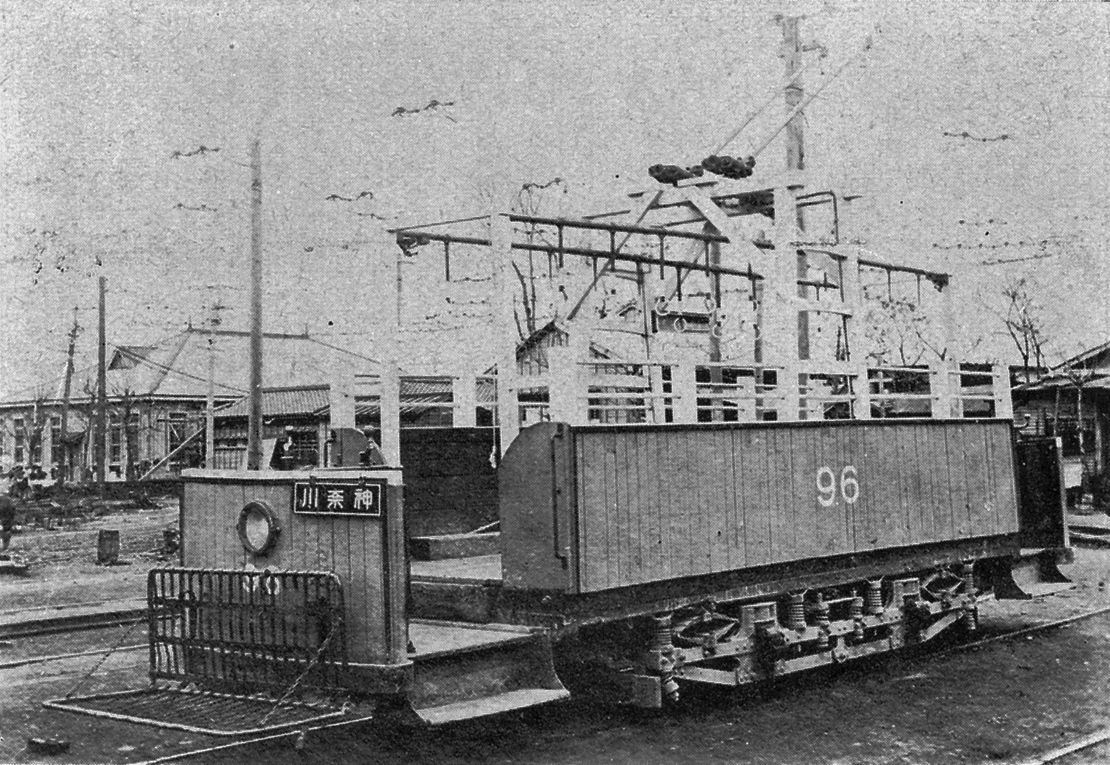 Yokohama city tram No.96 car, which was operated as a barracks train after being damaged by a fire caused by the Great Kanto Earthquake.